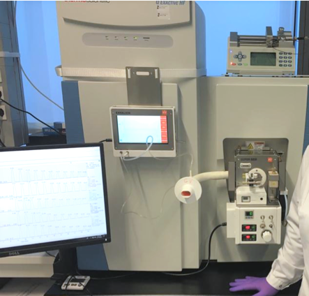 Secondary electrospray ionization and mass spectometer